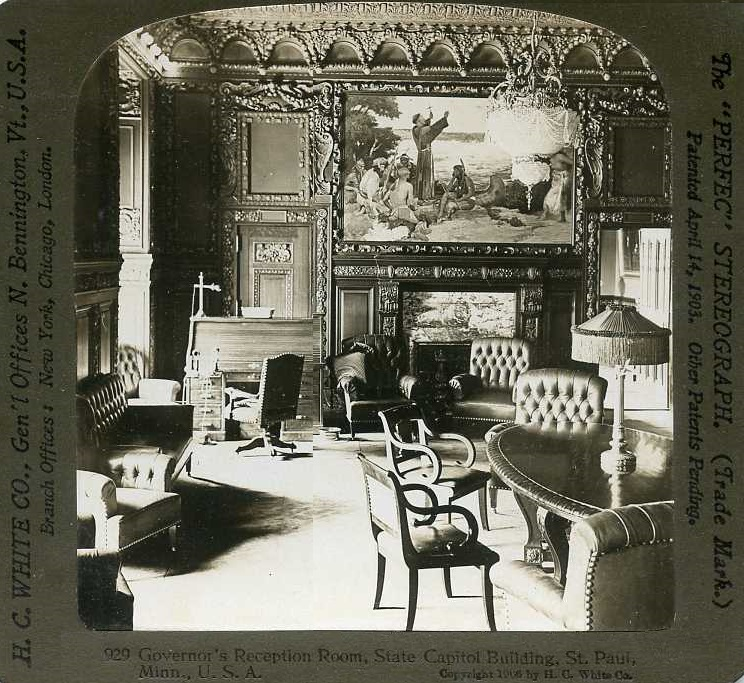 1906 Stereograph (condensed into a single slide) showing the Governor's Reception Room in the Minnesota State Capitol. On the far wall above the fireplace is the 1905 painting "Father Hennepin at the Falls of St. Anthony" by Douglas Volk.